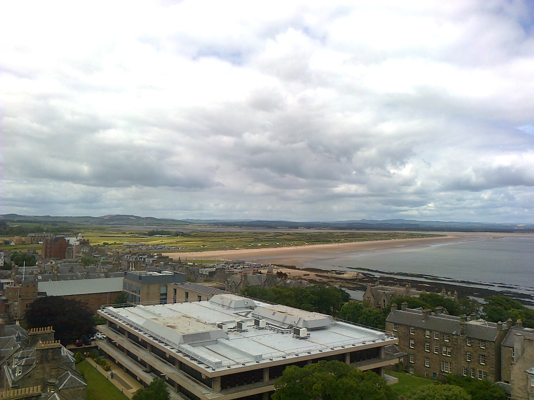 the view of the university of St Andrews library as seen from St Salvator's tower